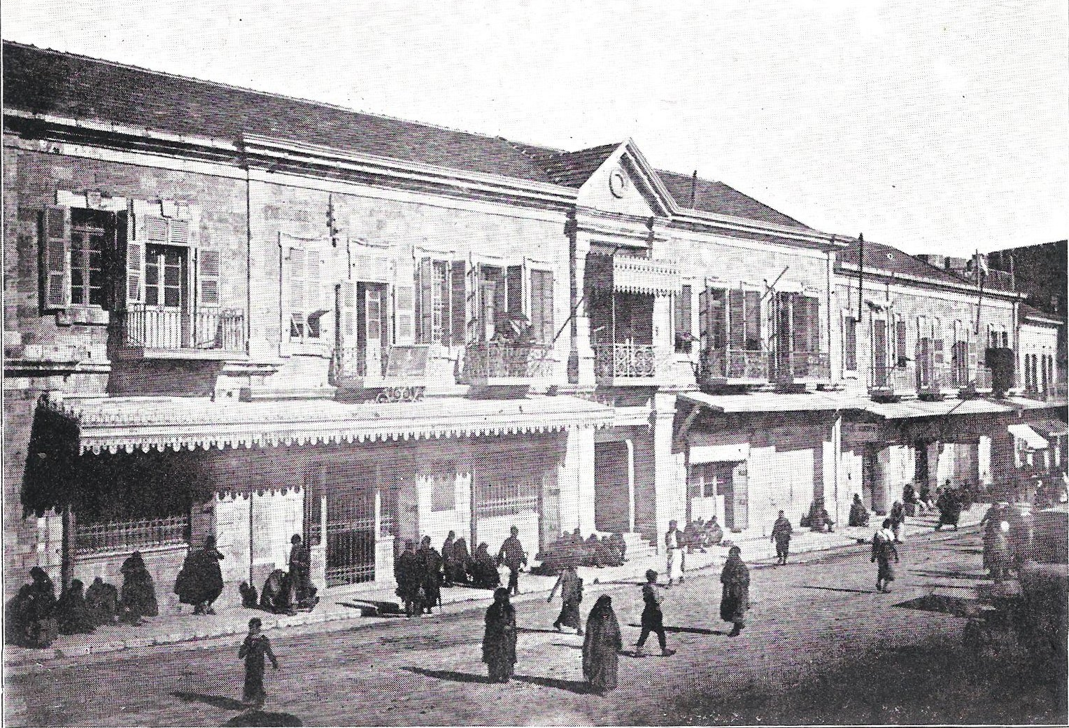 Street in Jerusalem. The picture are from old book (that was published in 1899), some of the pictures are from 1899, some are even older. The name of the book (in hebrew) is: "מראה ארץ ישראל והמושבות" by (in hebrew): "ישעיהו ראפאלוביטש ושותפו משה אליהו זאכס"